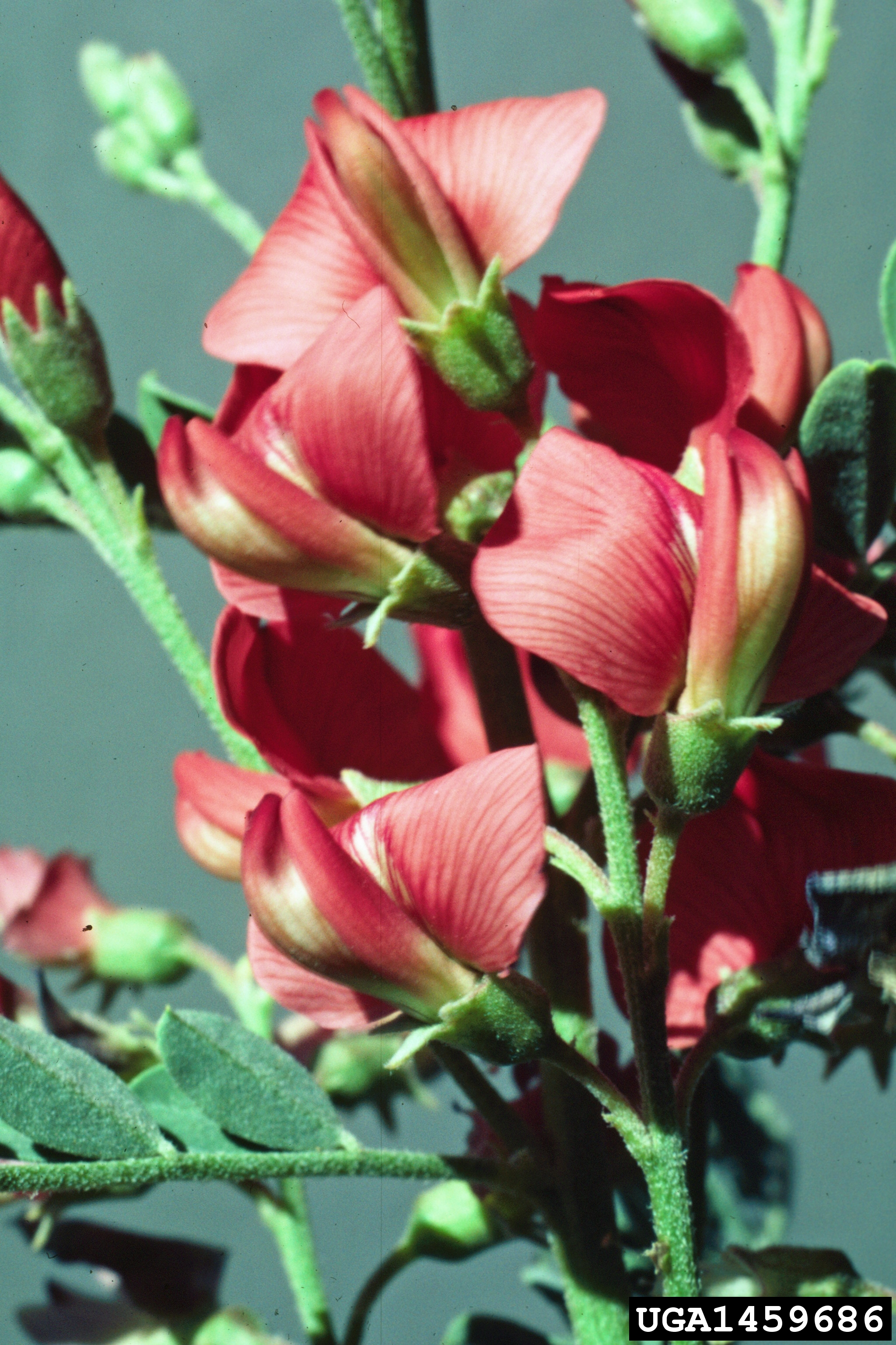 Swainsonpea Sphaerophysa salsula